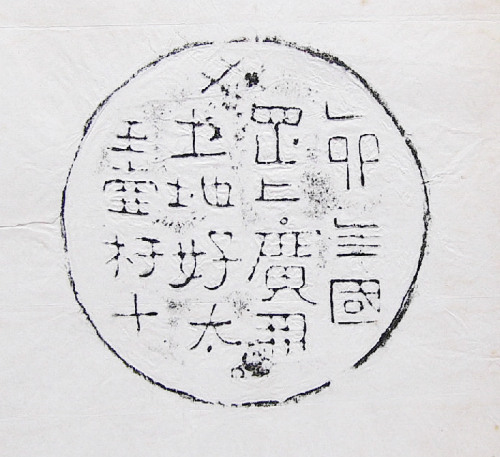 Inscription on the bottom of the bronze bowl with Lid. It was unearthed in 1046 by Korean official archeologists. [Bowl for Gwanggaeto in ACE412 No,10]